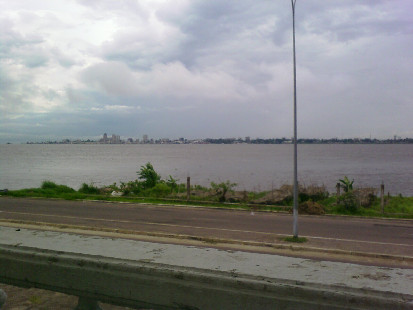 View of La Gombe municipality in Kinshasa, across the Pool Malebo of the Congo River. Seen from a road in Brazzaville.